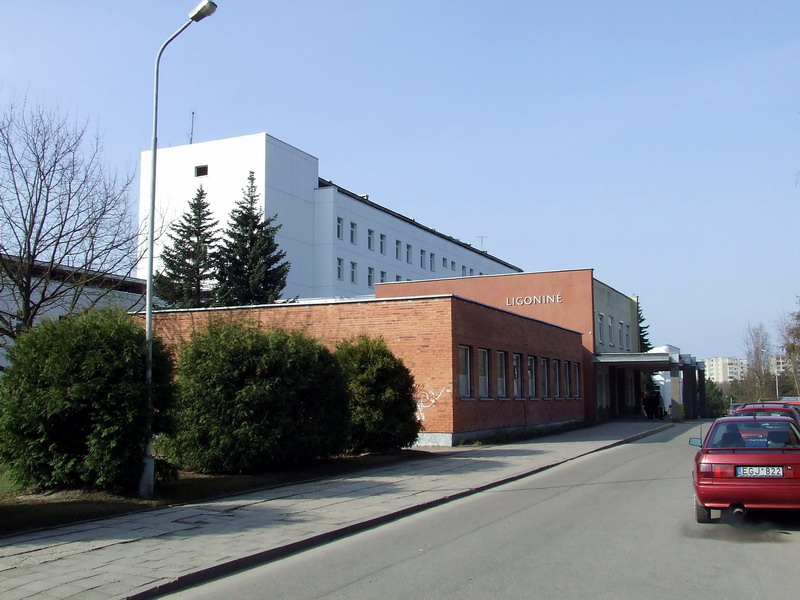 Hospital of Jonava